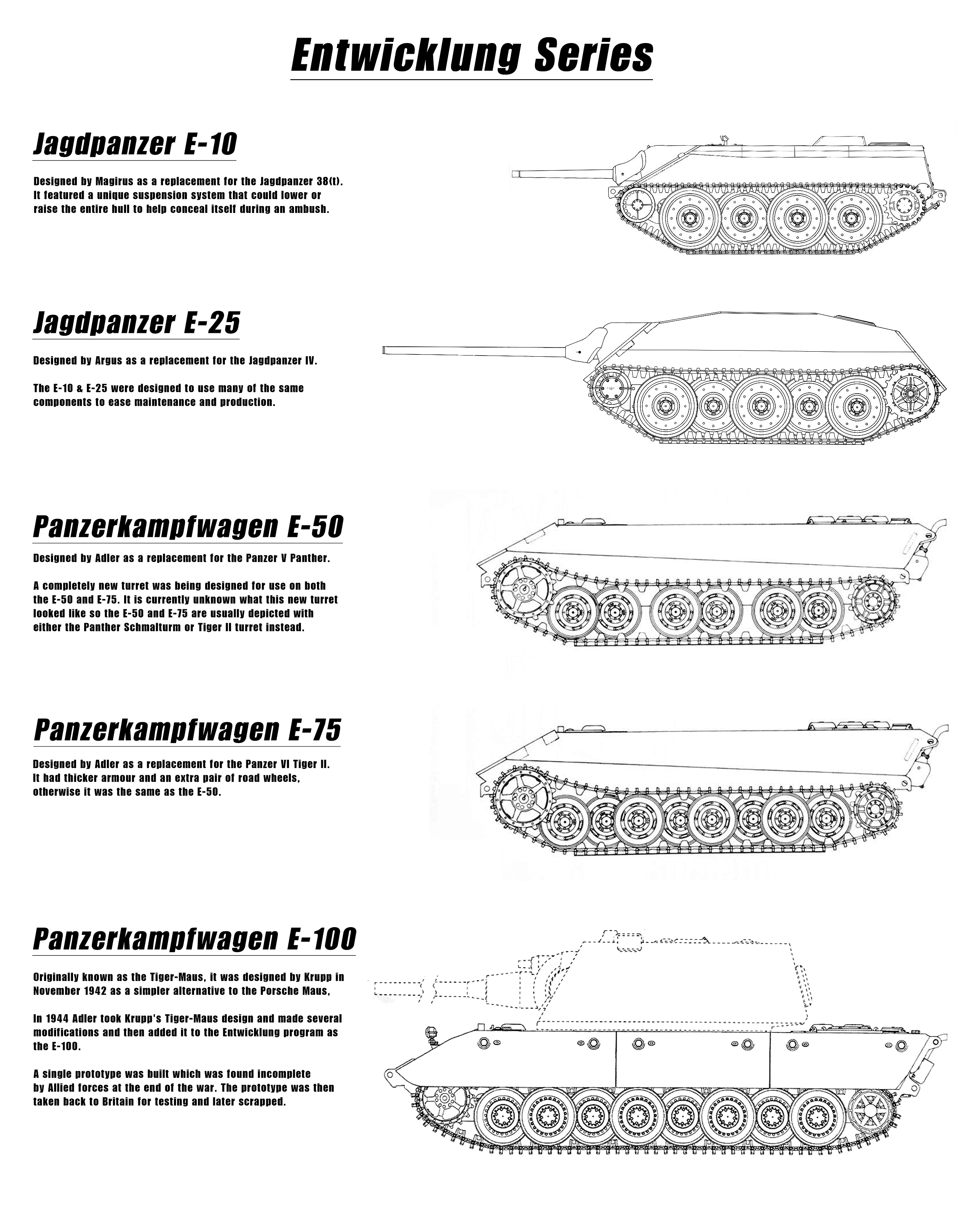 A description of the Entwicklung series